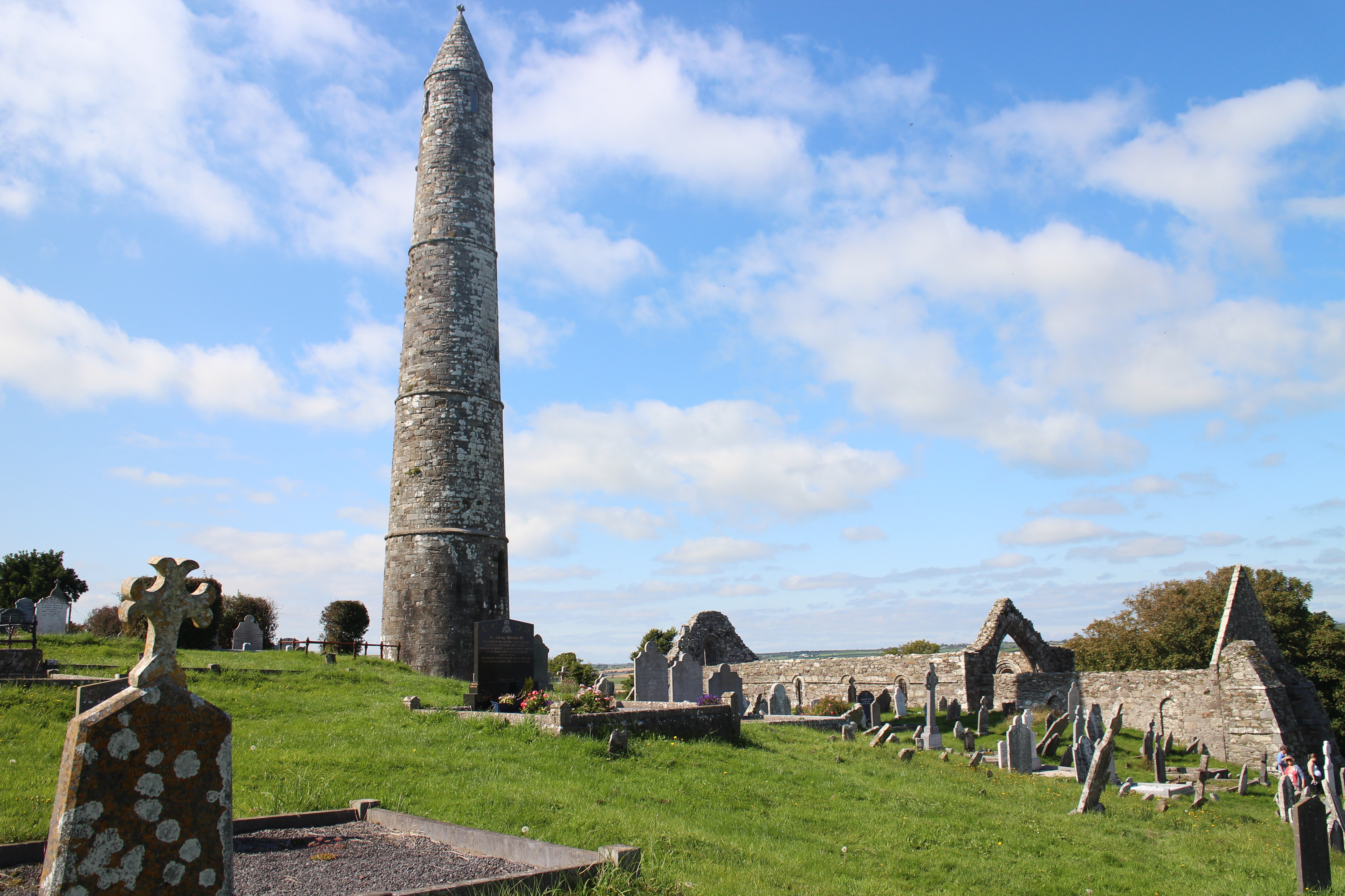 Ardmore Cathedral